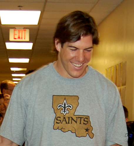 Scott Fujita, a member of the New Orleans Saints, greets more than 200 students of Belle Chasse Academy during a tour of the school as a part of the National Football League's Campaign 60 program. The NFL's Campaign 60 program is intended to encourage youth to exercise for 60 minutes a day. Belle Chasse Academy is the only NASA charter school on a military installation.